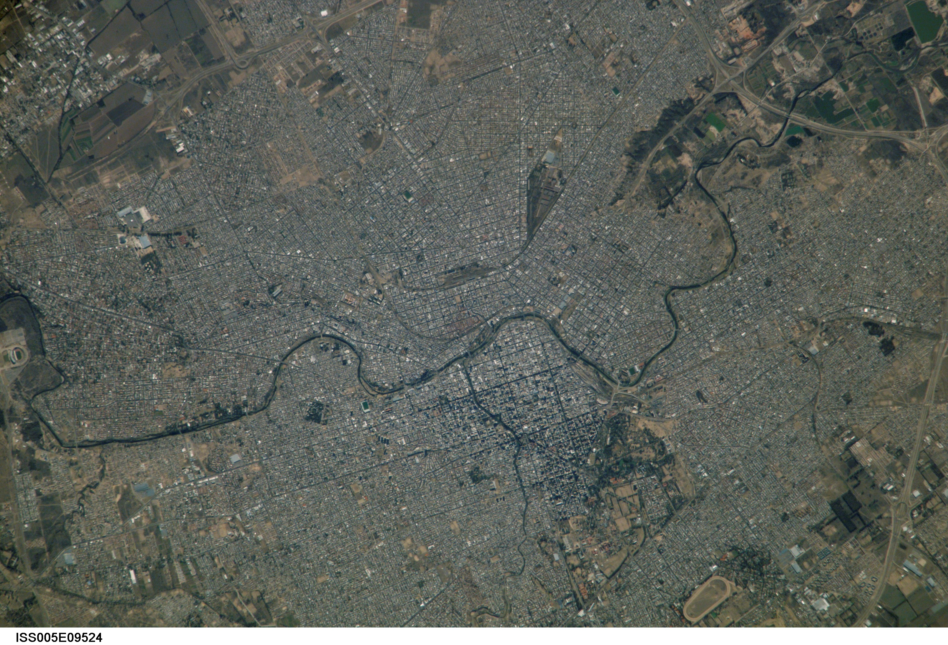 Photograph of Córdoba taken from International Space Station (ISS). Mission: ISS005 Camera: Camera: E4: Kodak DCS760C Electronic Still Camera Film: 3060E : 3060 x 2036 pixel CCD, RGBG array. Point of recording time: August 11, 2002, 14:01 License: Public domain